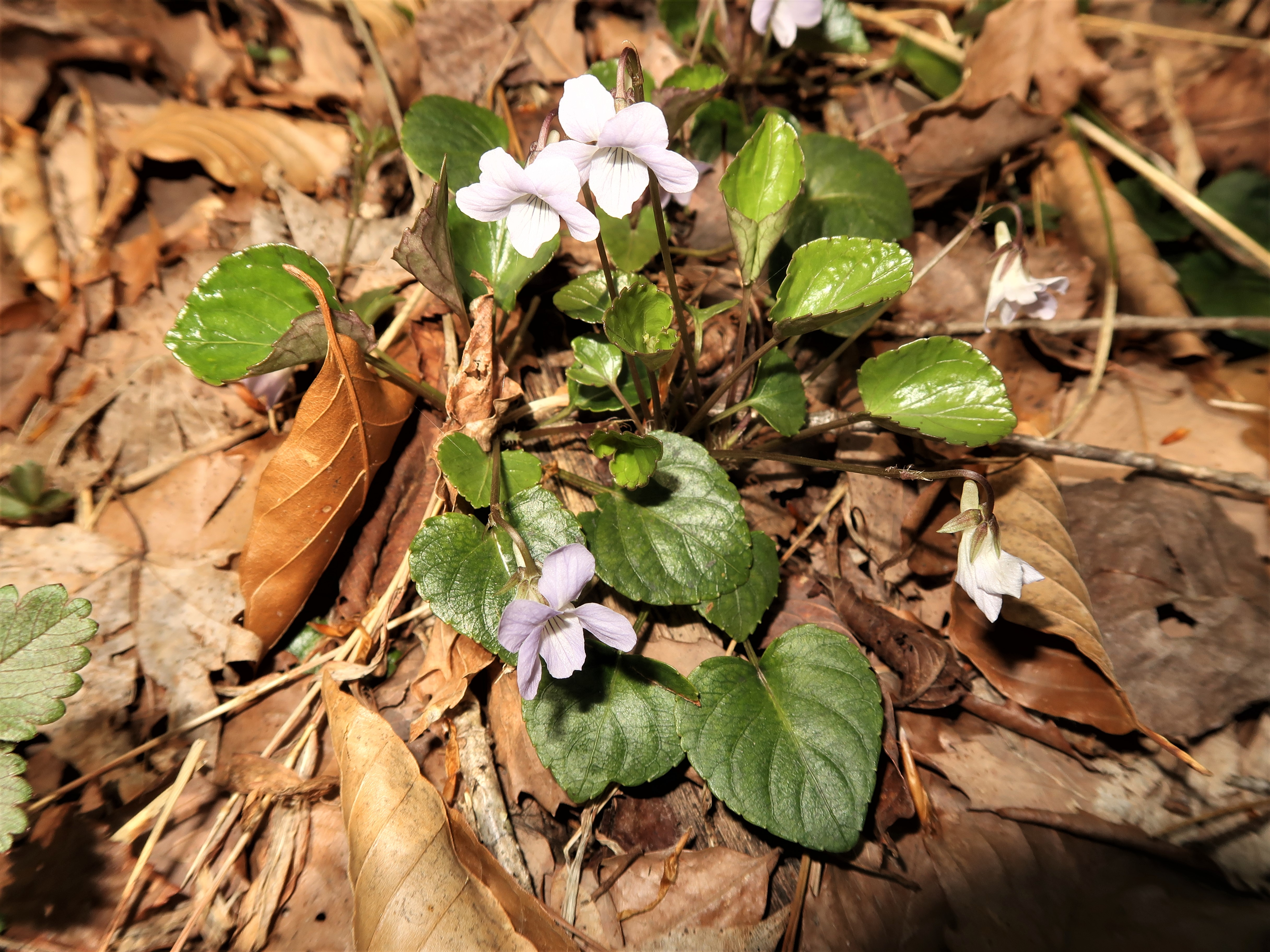 Viola faurieana, Aizu area, Fukushima pref., Japan